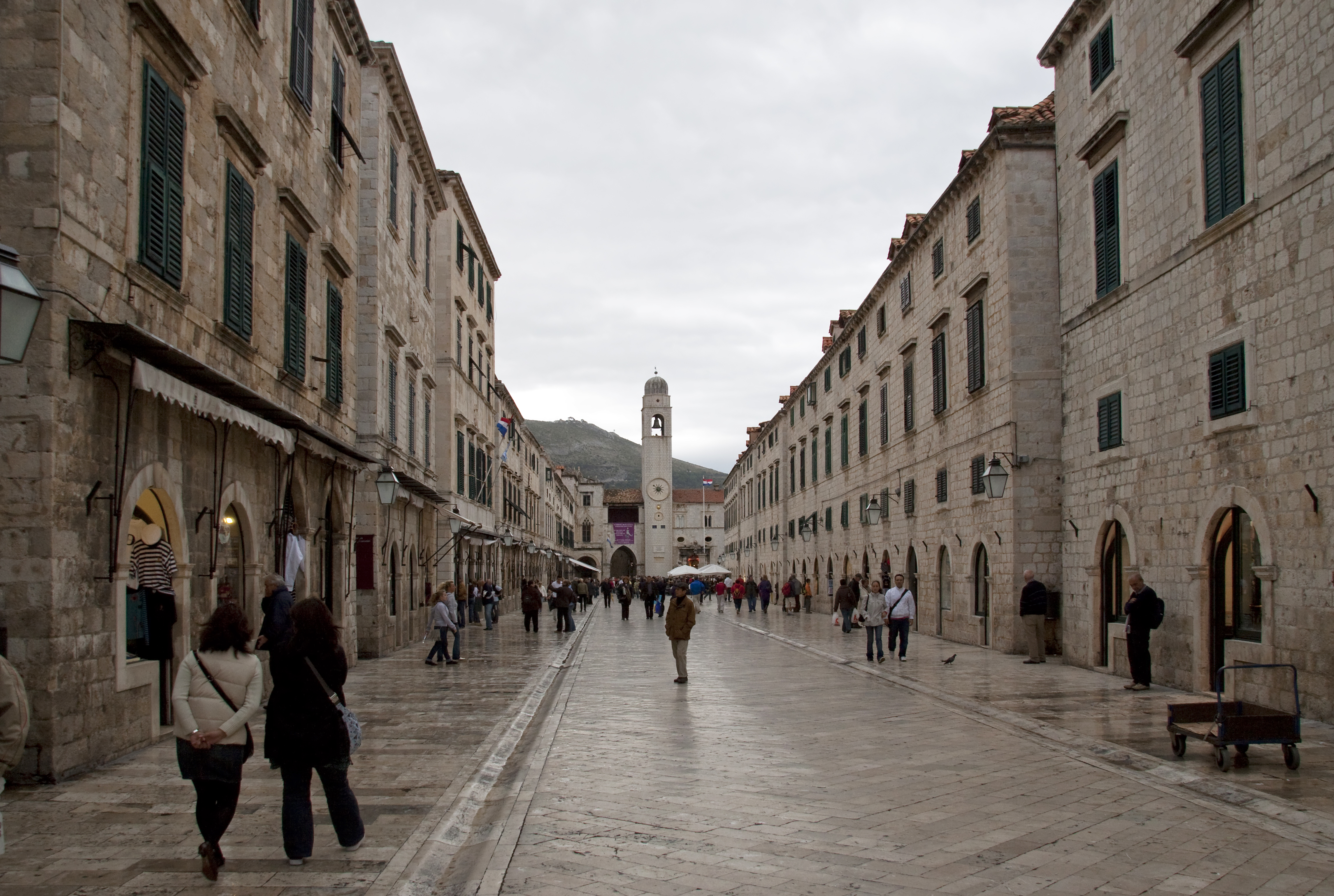 Main Street Placa Stradun Old Town Dubrovnik